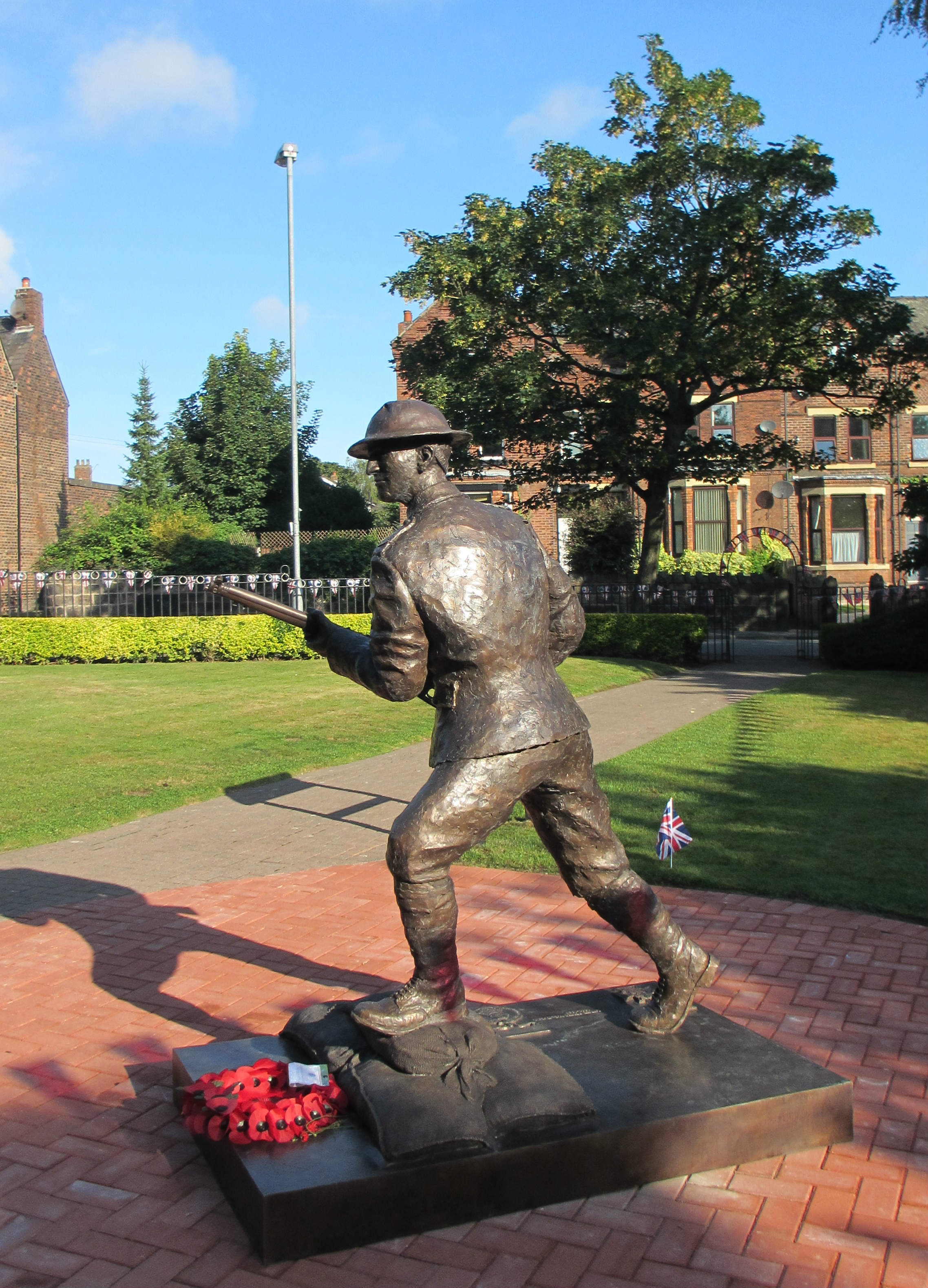 Photograph of the statue of 'Todger' Jones, VC, DCM, unveiled in the Memorial Garden, Runcorn, on 3 August 2014